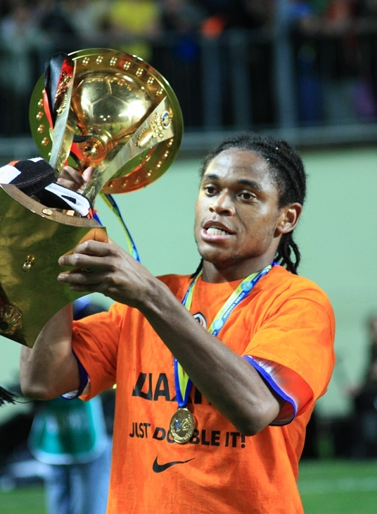 Luiz Adriano (2011 Ukrainian Cup)